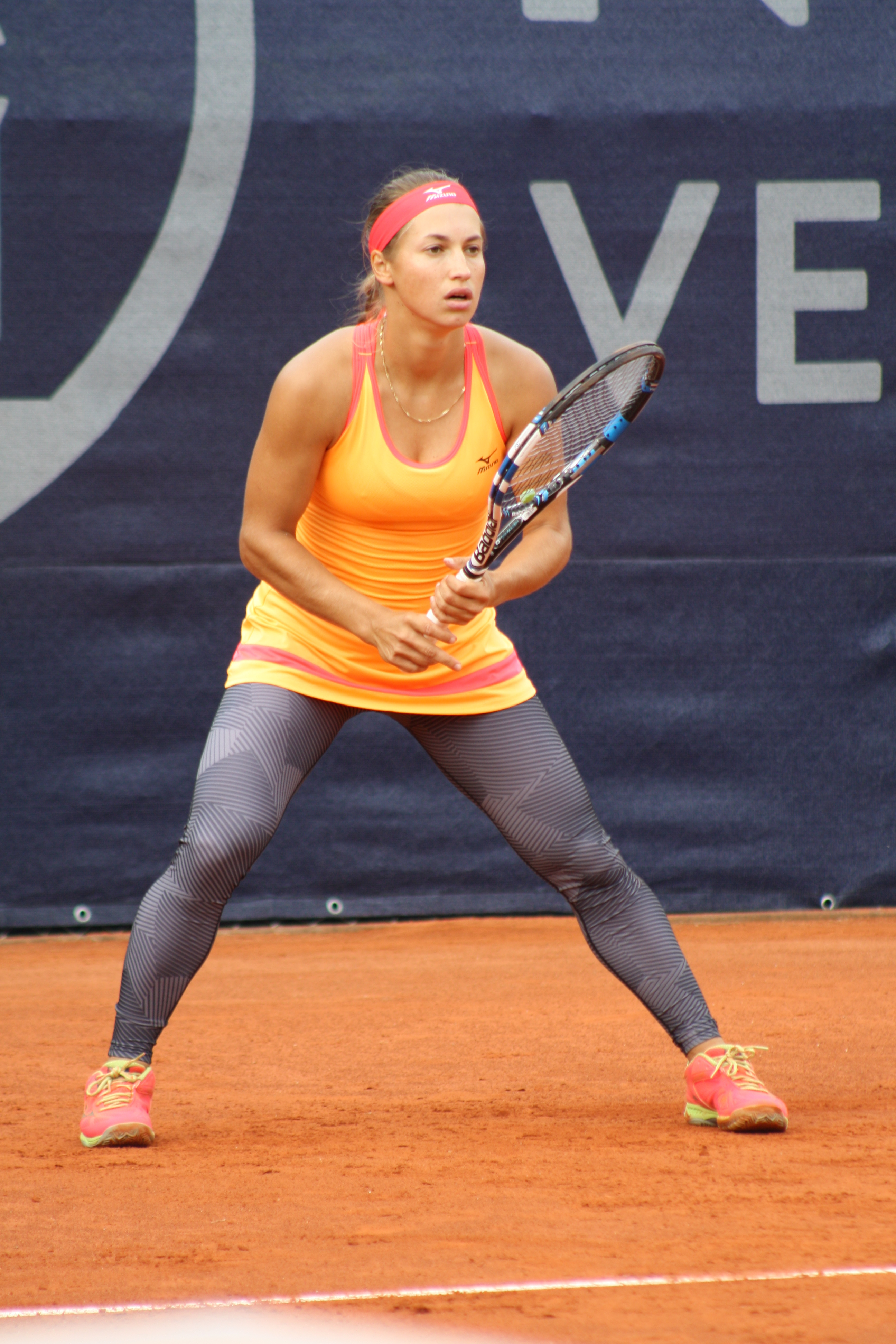 Julija Antonowna Putinzewa, May 2017